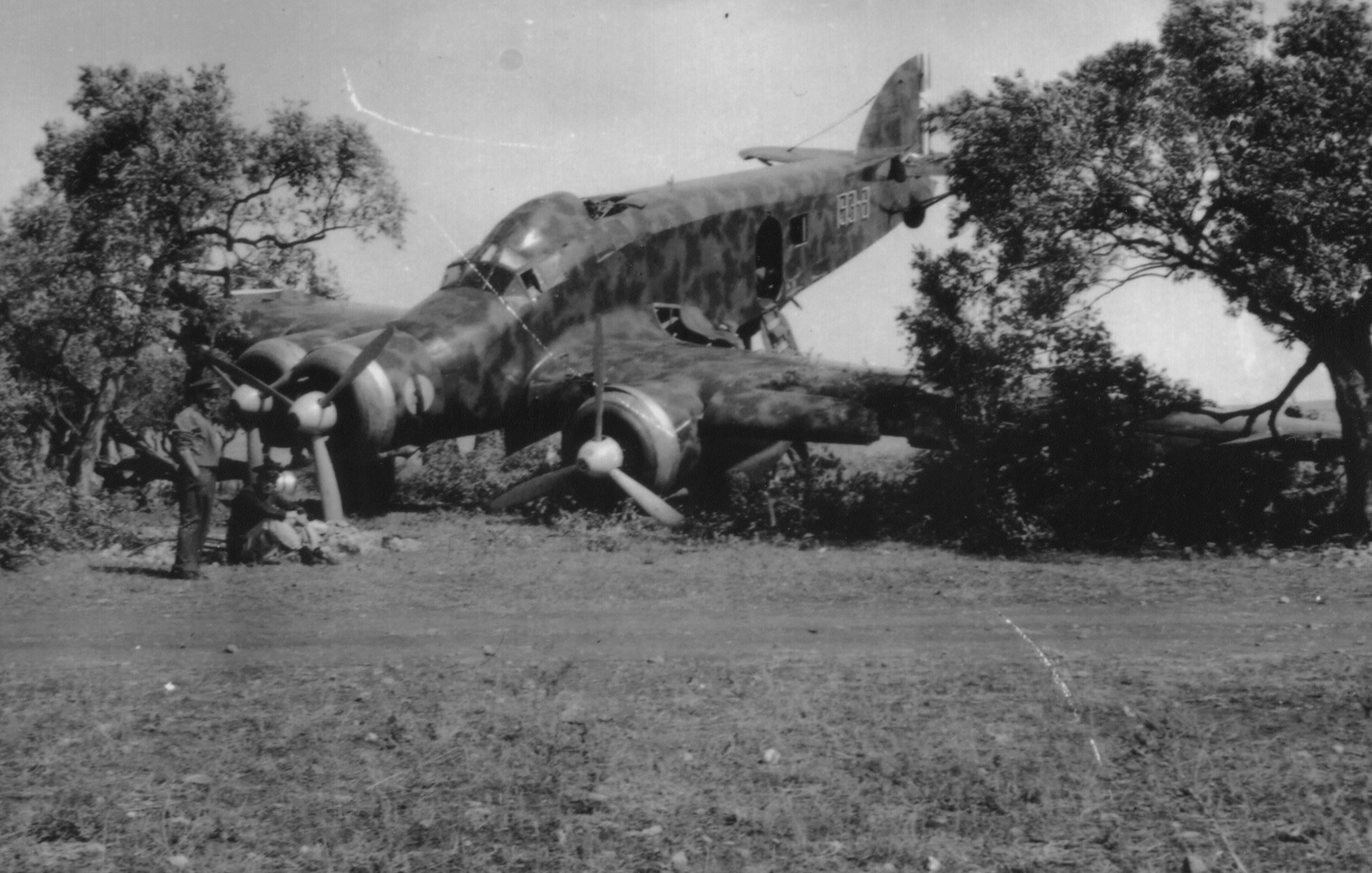 Crash landing during WWII. From the private archive of Riggio family.